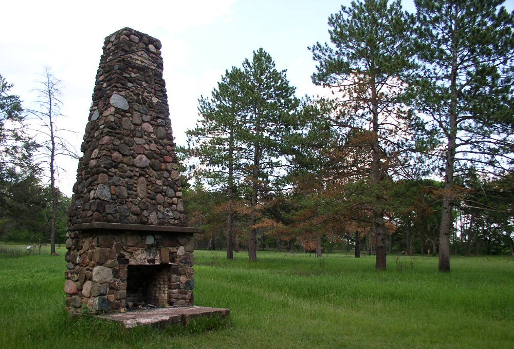 Recreation hall chimney, only remains of Yellowbanks CCC Camp, St. Croix State Park, MN, USA